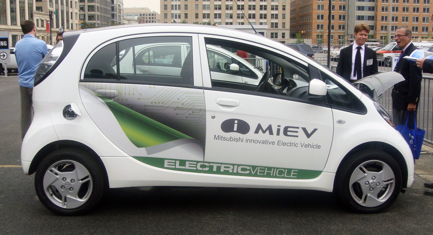 Mitsubishi i MiEV electric cars participating in the Ride, Drive & Charge event organized by the EDTA, downtown Washington, D.C.